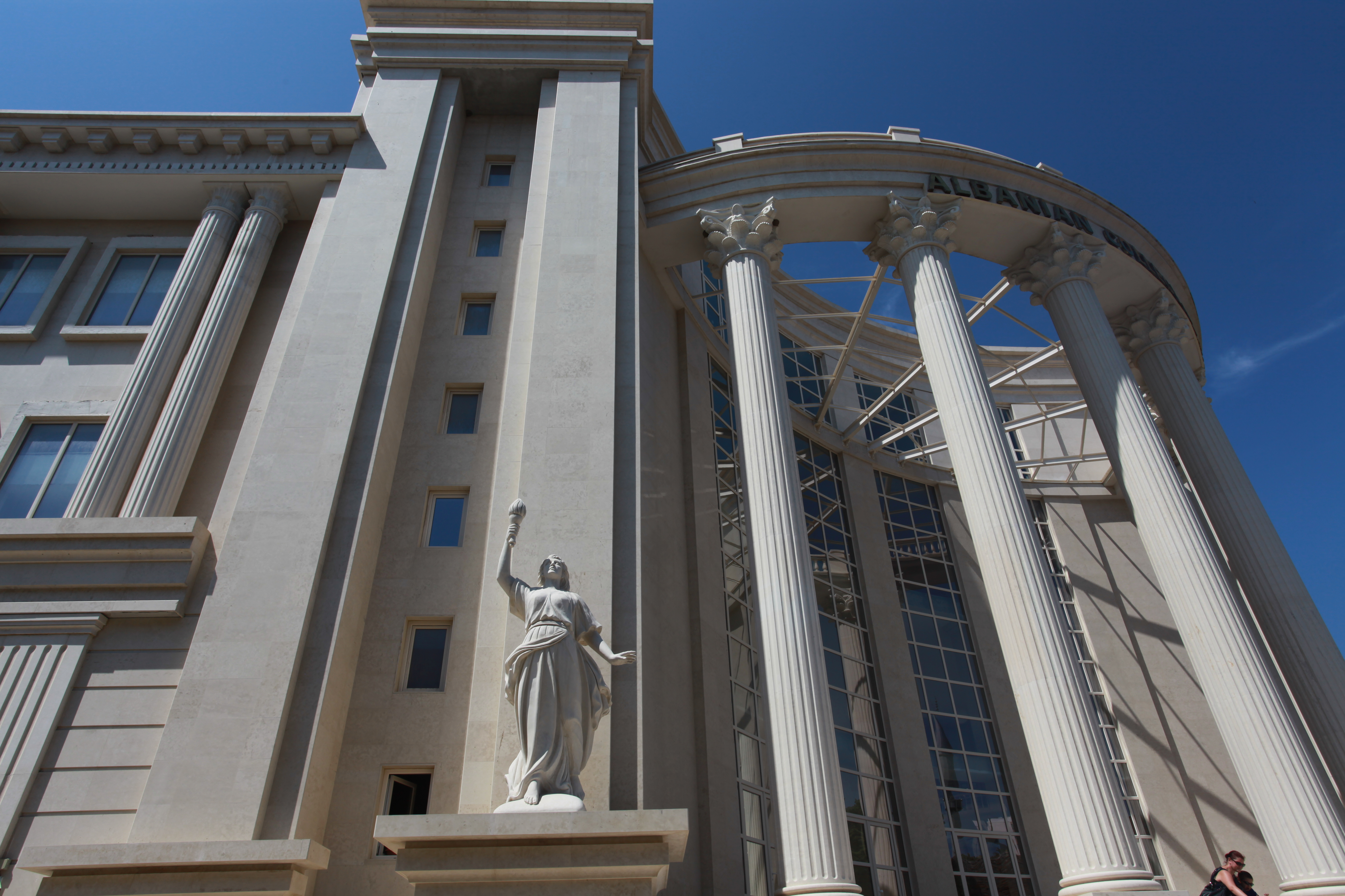 Albanian College of Durres 2016